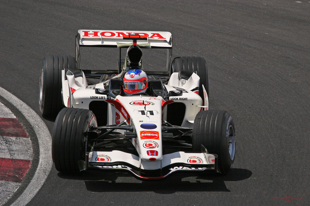 Rubens Barrichello driving for Honda F1 at the 2006 Canadian Grand Prix.